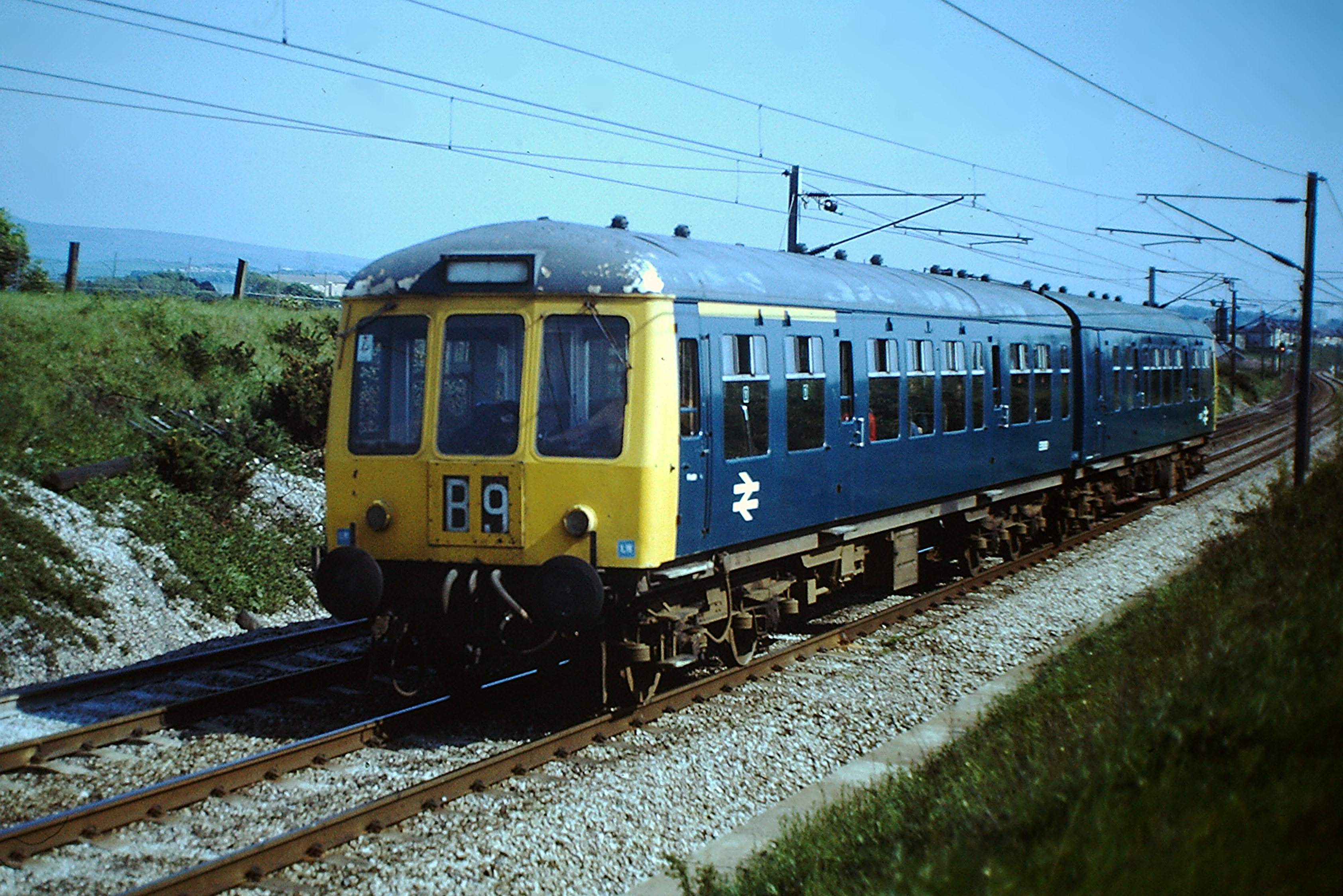 BR (Derby) Class 108 2-car Local Passenger dmu Nos.E50944 (Class 108/2) & E56228 (Class 142) of the 1958 batch, near Lancaster, on a Lancaster - Morecombe service, 05/75. Scanned slide taken with an Exacta.